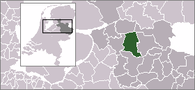 Location of Dalfsen